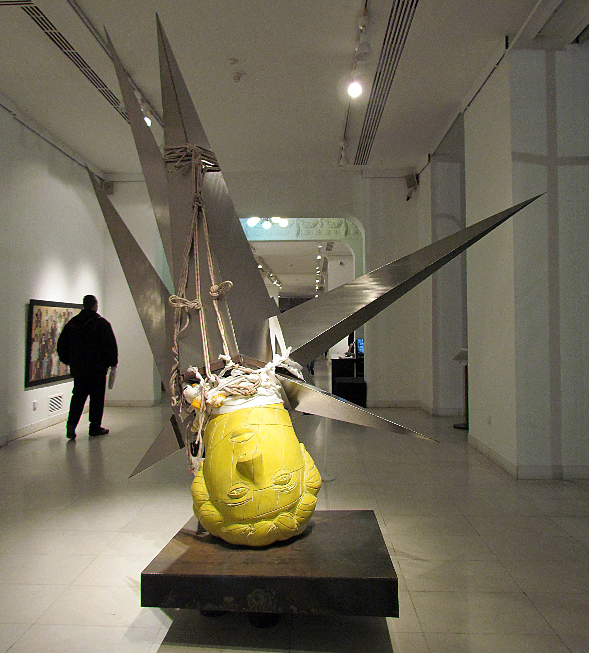 Mrdjan Bajic, an Angel 2007